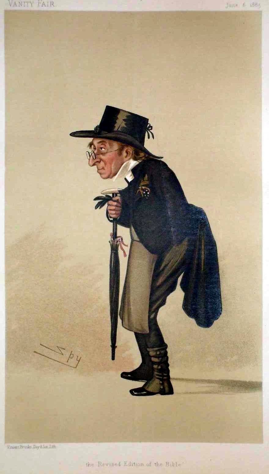 Caricature of The Ven Benjamin Harrison MA. Caption read "the Revised Version of the Bible".